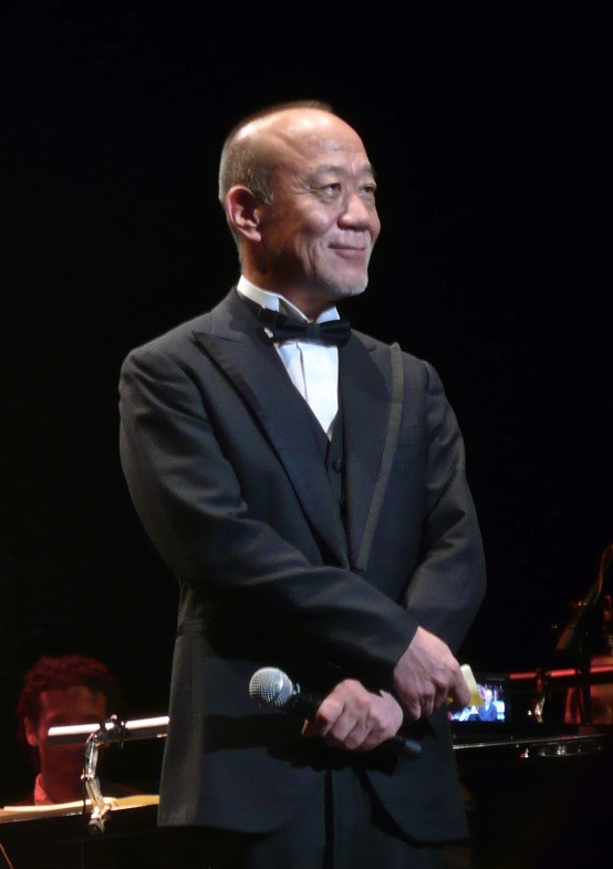 Joe Hisaishi in Paris